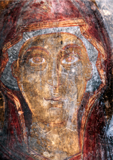 Saint Petra Church inCrešnevo Fresco 1601